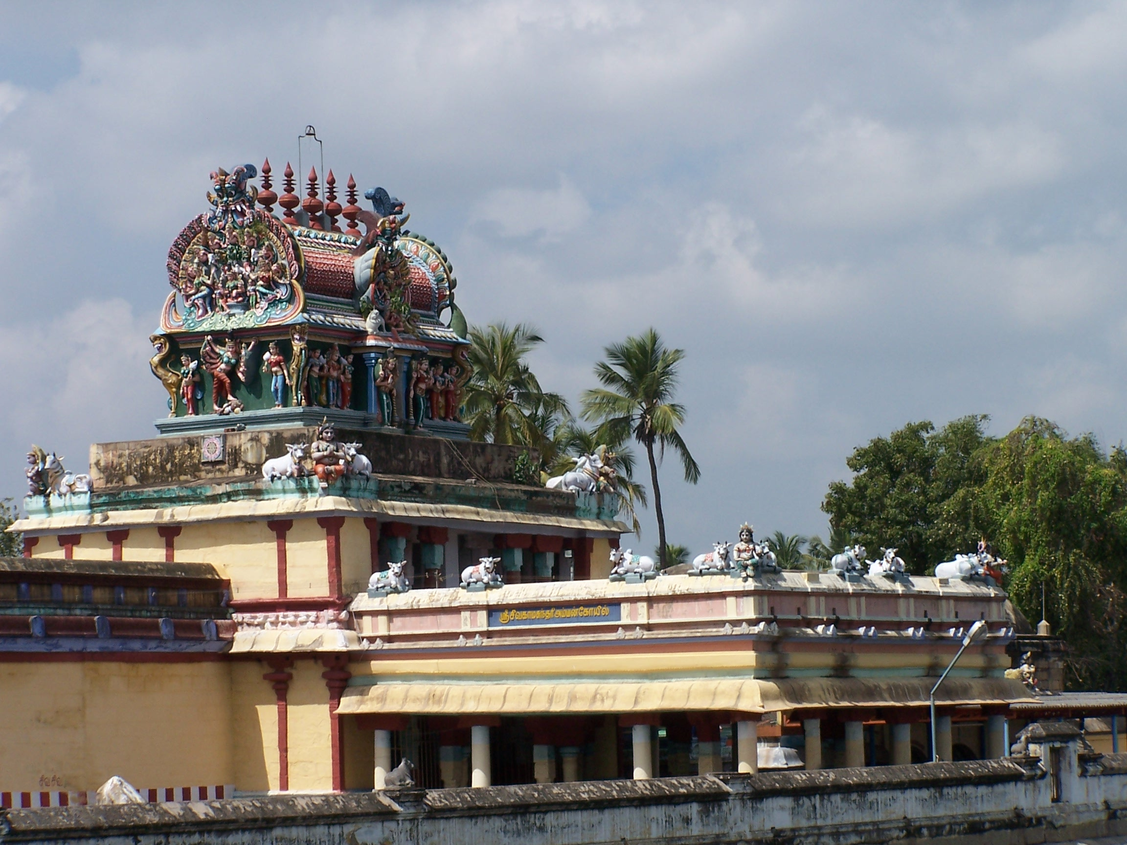 View of Chidambaram Temple in India.